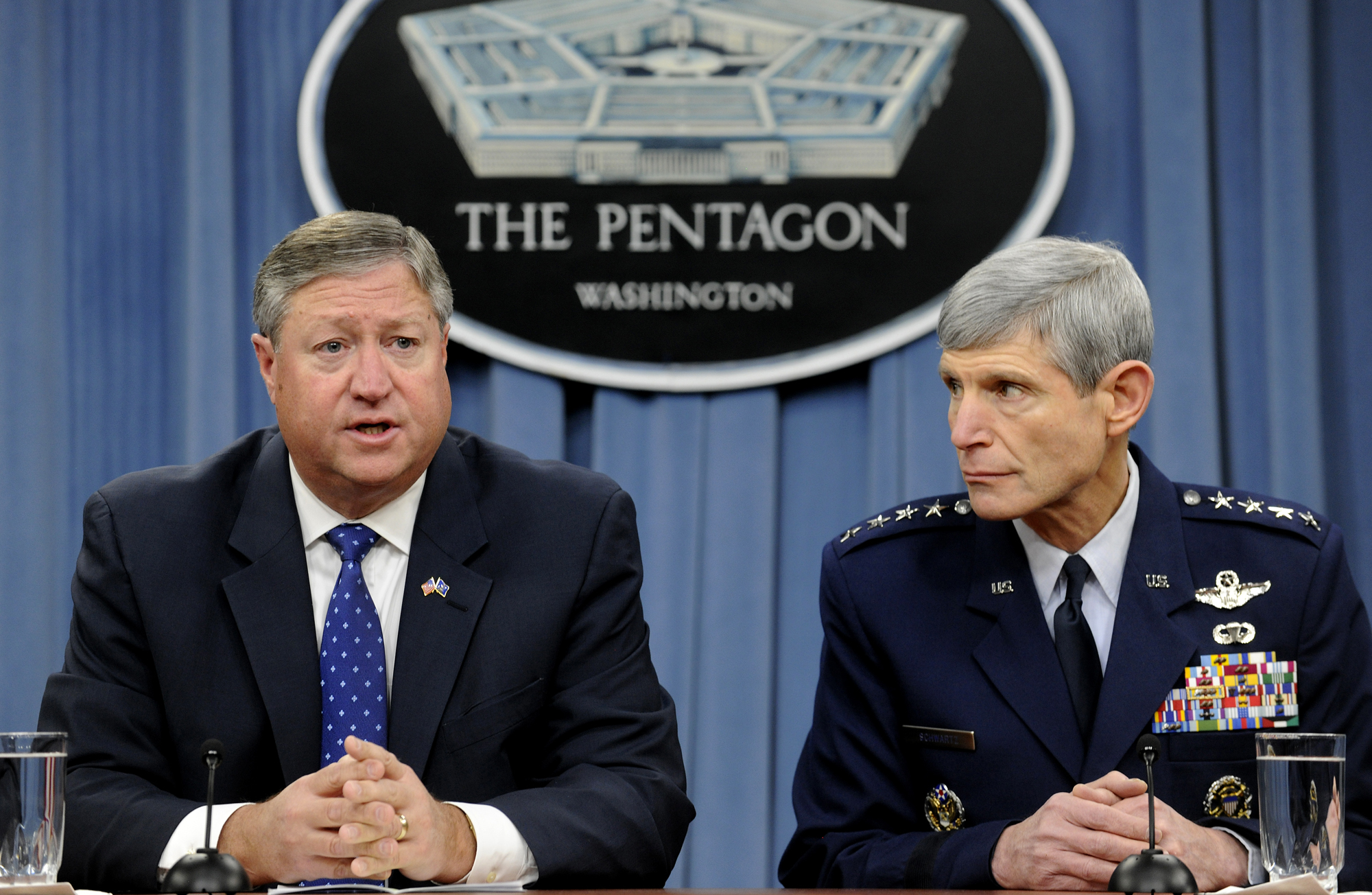 Secretary of the Air Force Michael Donley and Air Force Chief of Staff Gen. Norton Schwartz conduct a joint press briefing at the Pentagon in Arlington, Va., Feb. 3, 2012. (DoD photo by Scott M. Ash, U.S. Air Force/Released)